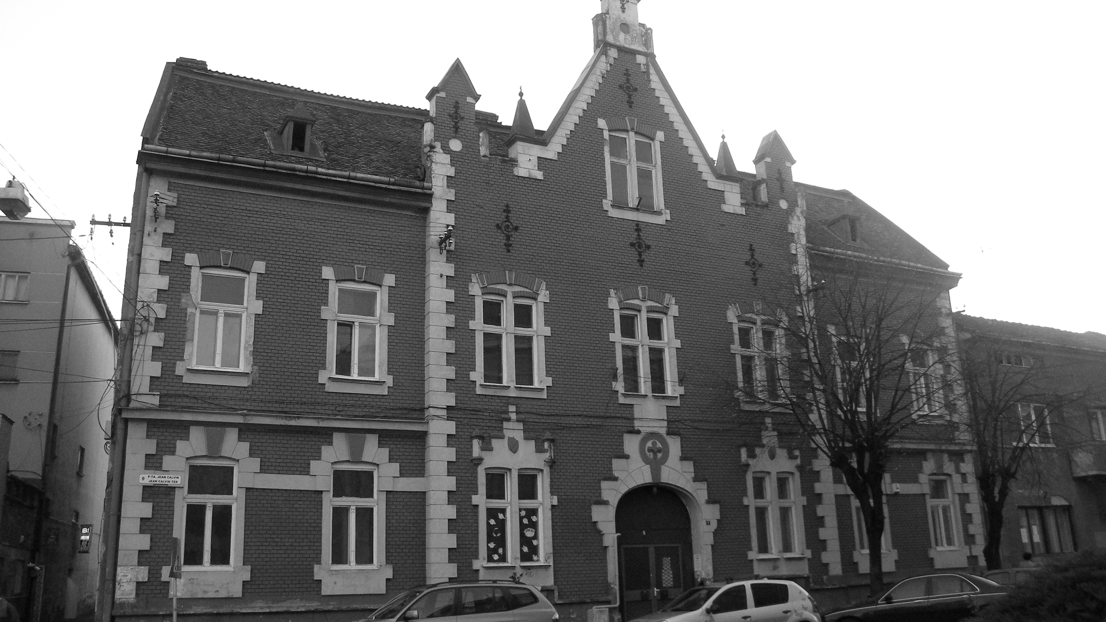 The late reformed school (today: art-school + reformed college)